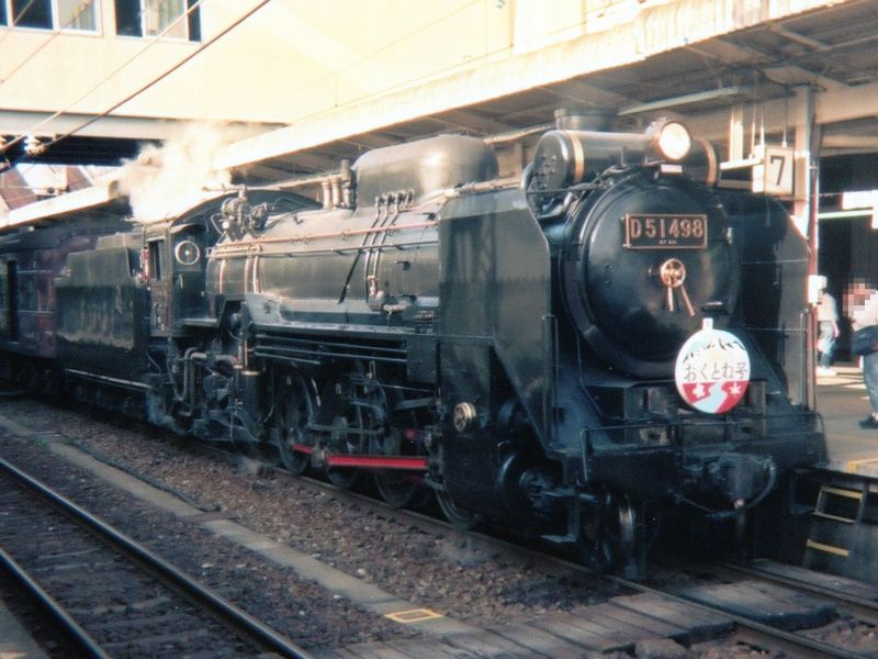 East Japan Railway Company, Steam locomotives type D51 at Takasaki Sta.